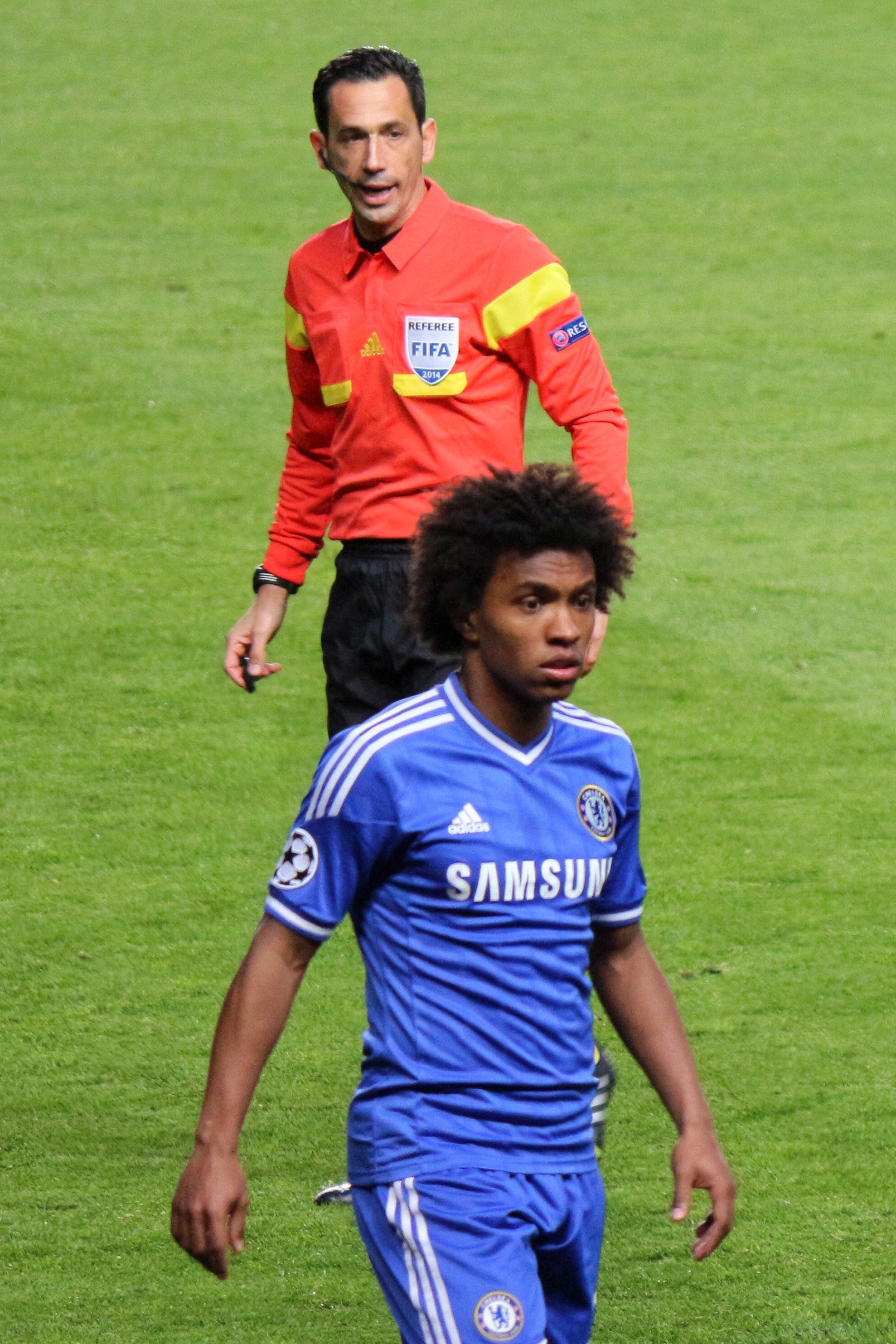 Chelsea 2 PSG 0